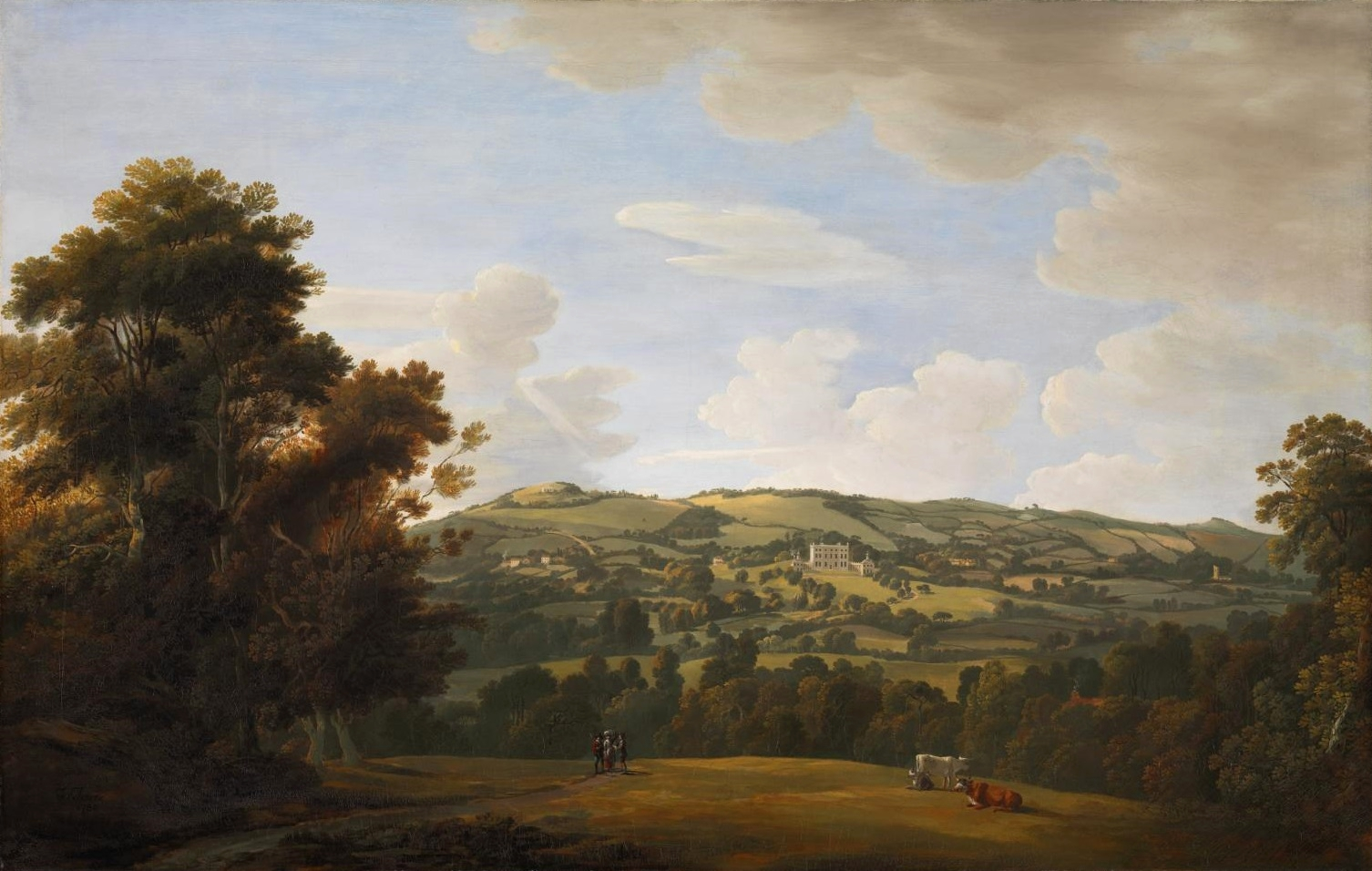 Haldon House, near Exeter, Devon. 1780 painting by Francis Towne (1739–1816), Canvas, 31½×49½" (80.5×126 cm), Tate Gallery, London, Reference T01155. Provenance: purchased 1969 from Leger Galleries Ltd (Grant-in-Aid) 1969. Commissioned 1780 by Sir Robert Palk, 1st Baronet of Haldon House; by descent to Evelyn Elizabeth Palk, who married Major Ernest Gambier-Parry, 1880; their son Thomas Mark Gambier-Parry; purchased by Leger Galleries Ltd 1968.